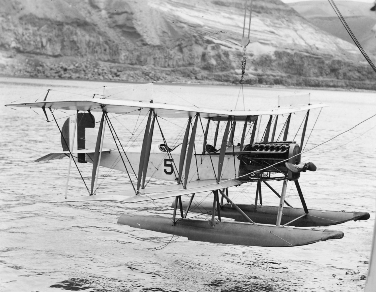 A U.S. Navy Curtiss R-9 seaplane (BuNo A332) pictured hooked to the crane of a seaplane tender during fleet operations.